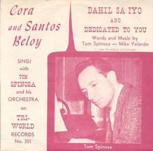 Dahil Sa Iyo LP Cover